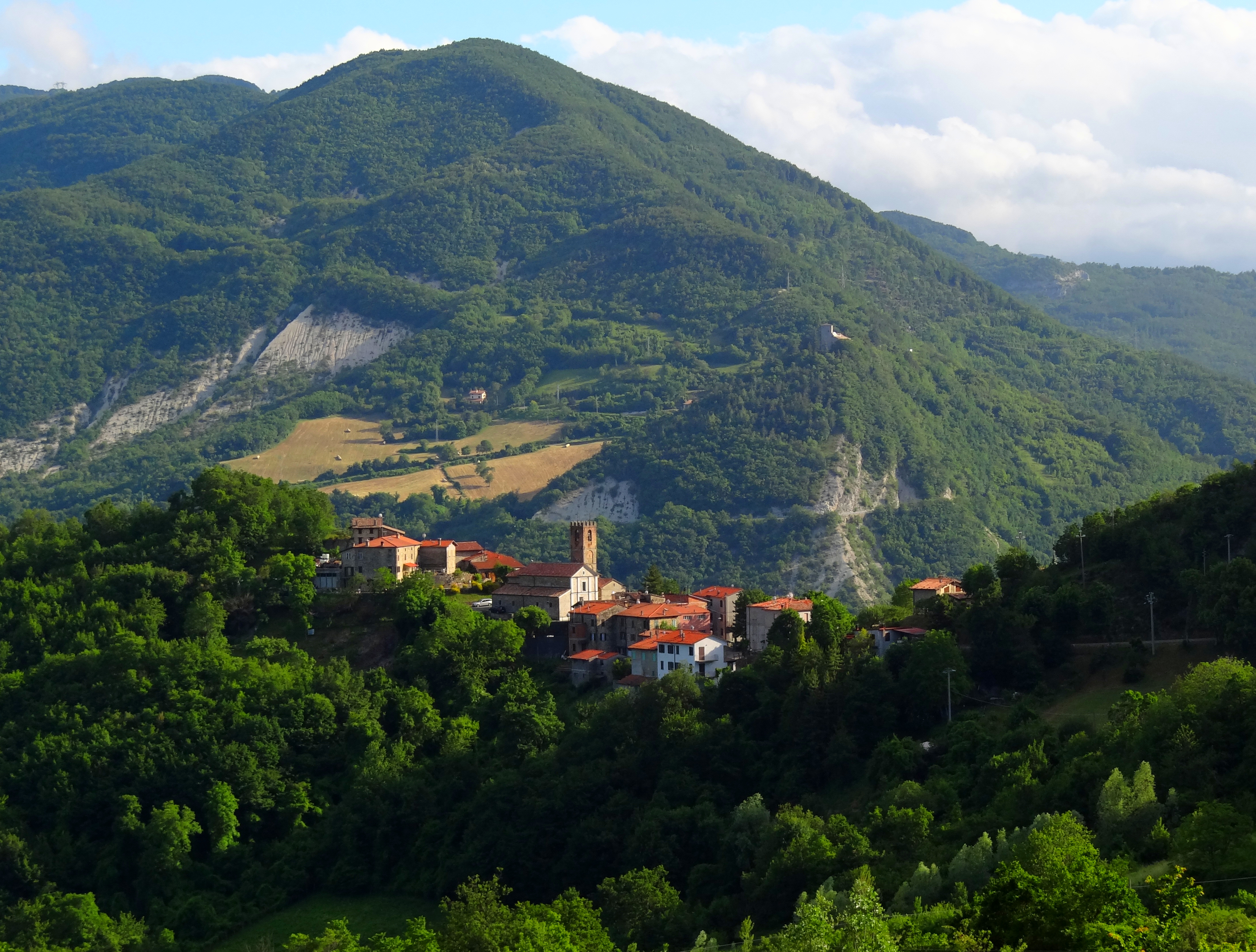 Castello di Casola as seen when approached on the Via Francigena from the north.